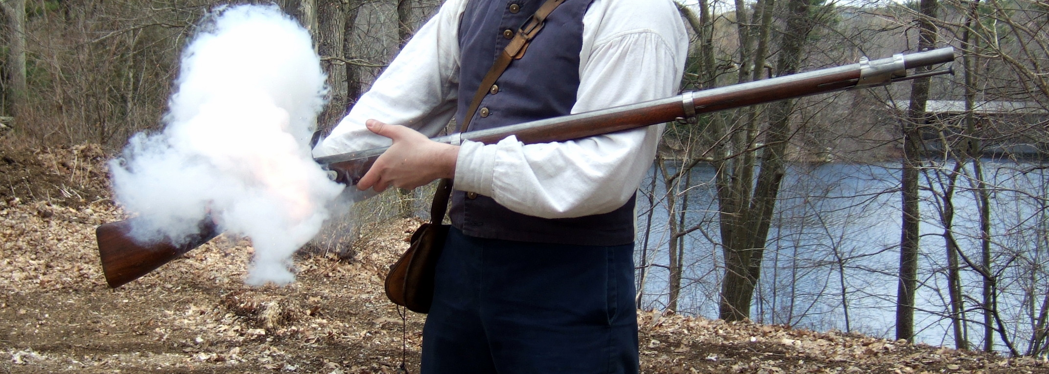 A literal "flash in the pan", caused by a misfiring of a flintlock musket. Taken at Old Sturbridge Village, Massachussetts. Note: I have an uncropped version of this image, but felt iffy about uploading such an identifying image without asking permission.